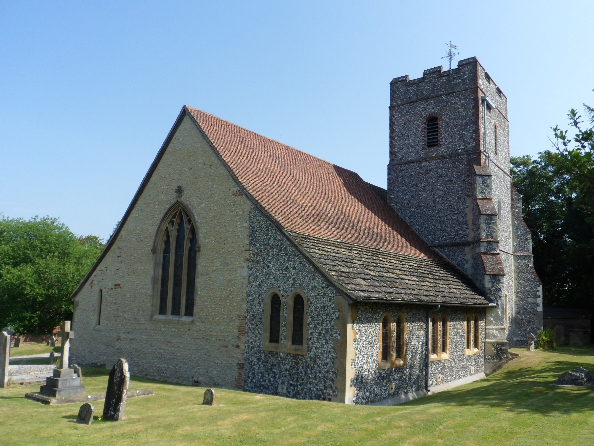 St Mary the Virgin's parish church, St Mary's Close, Fetcham, Surrey, England, seen from the southwest